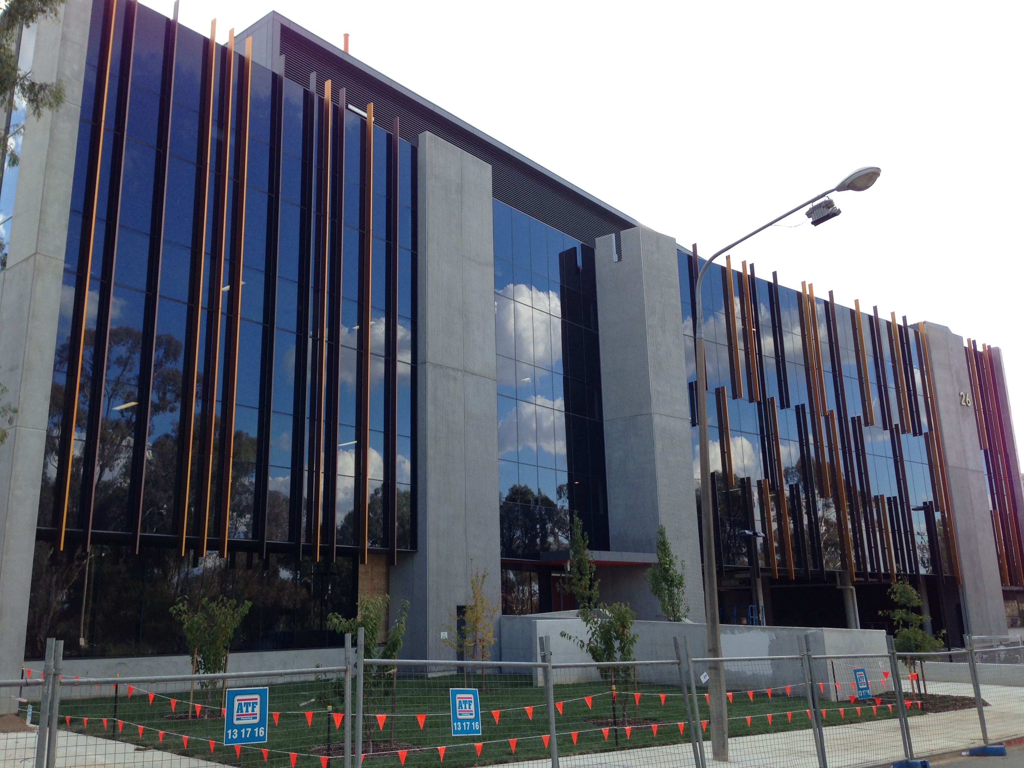 University of Canberra building, April 2013